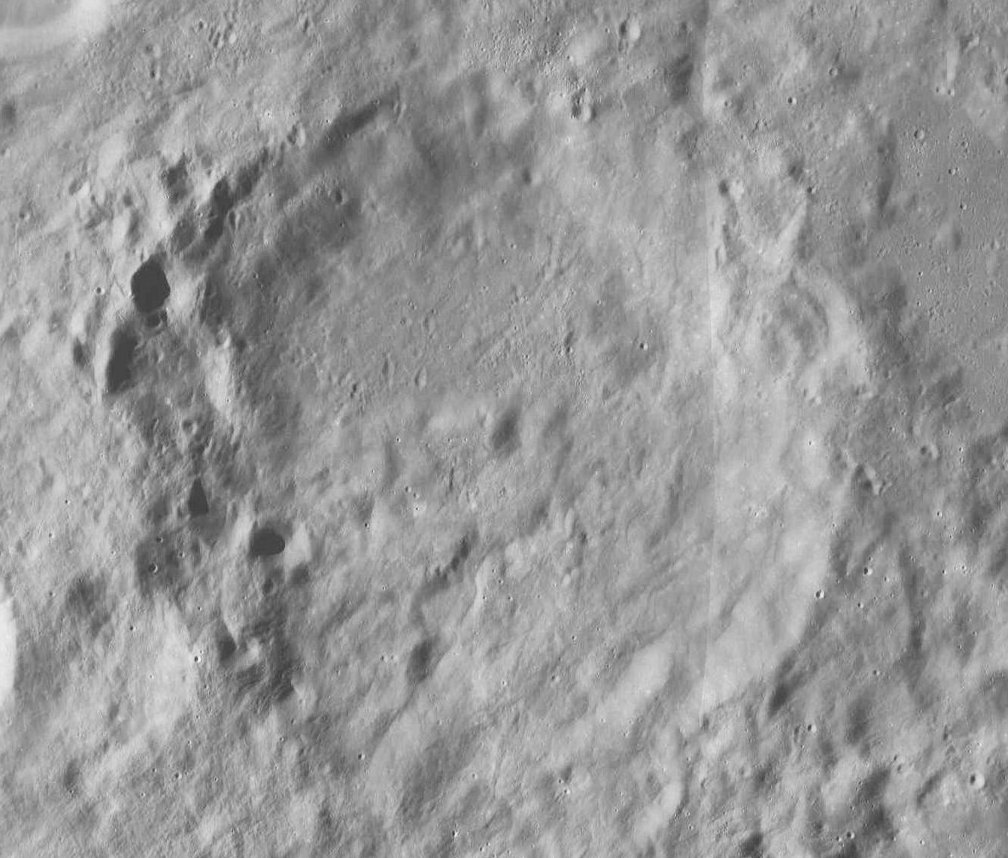 Crater Snellius (detail of LRO - WAC global moon mosaic; Mercator projection)